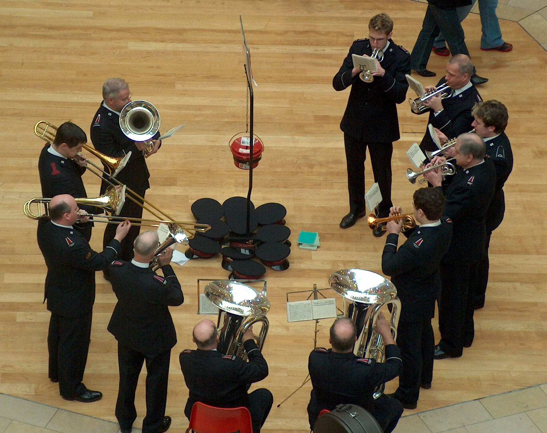 Salvation Army brass band was playing in Debenhams Bullring in Birmingham in December 2005.